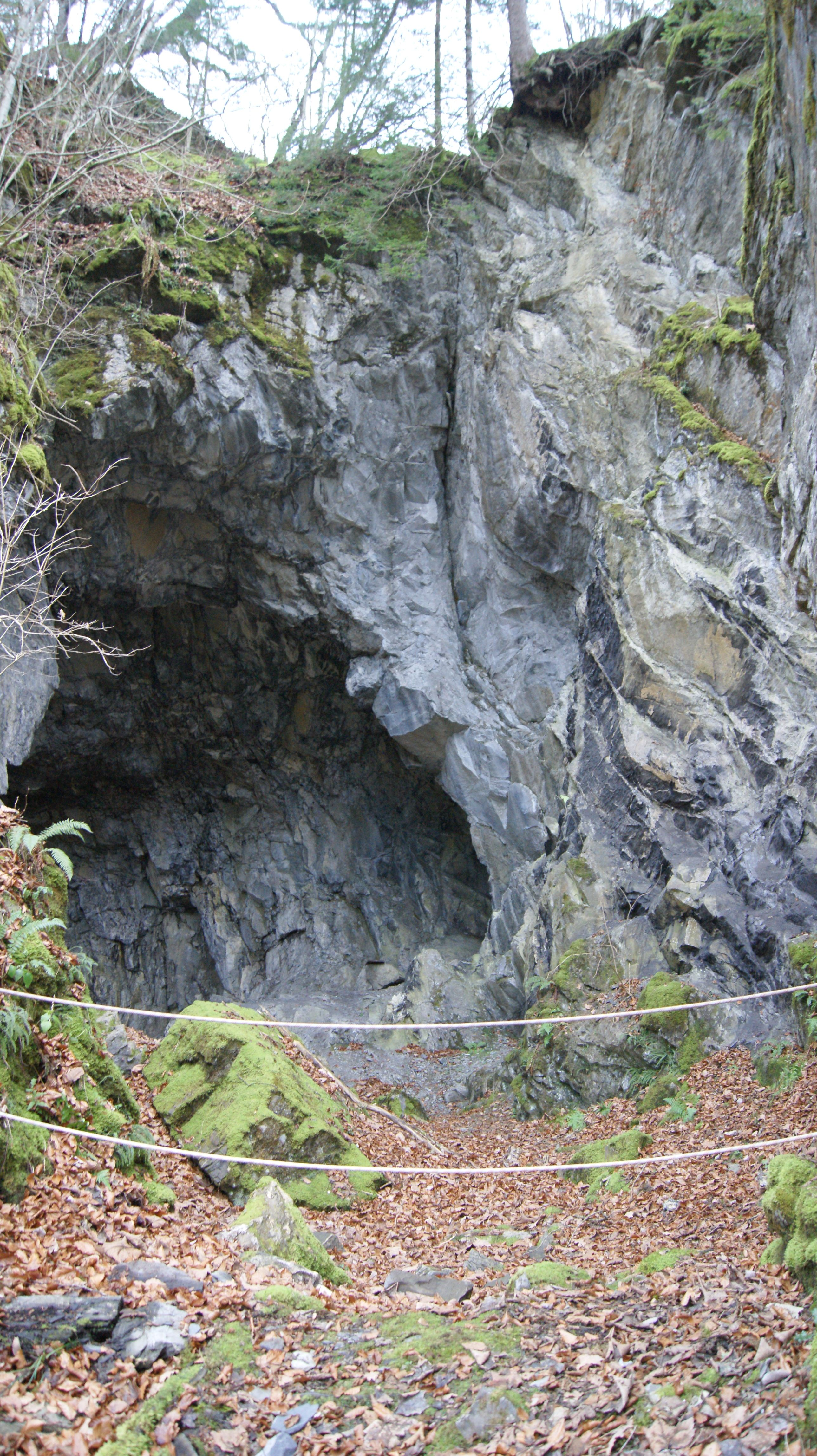 The Whetstone cave (Wetzsteinhoehle) is located in the sub-plot "Steinbruch" (meaning: "quarry") in the village Bizau in Vorarlberg, in the middle of the forest at about 700 masl in Austria. Below the Wetzsteinhoehle the Huettbach flows.